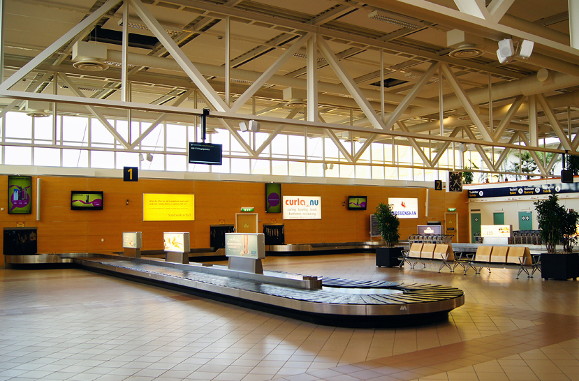 Arrival hall at Malmo Sturup Airport